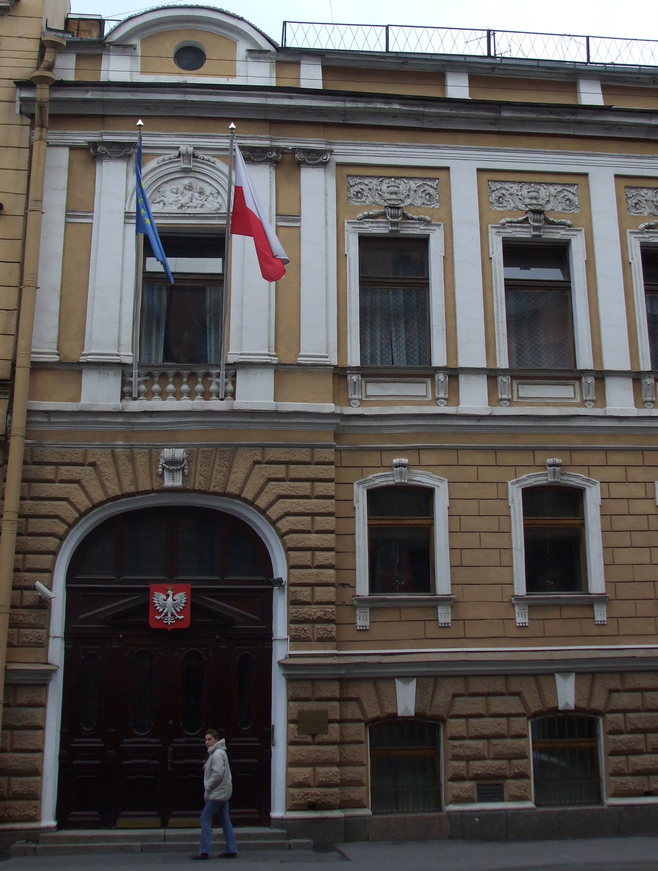 Poland consulate in Saint Petersburg